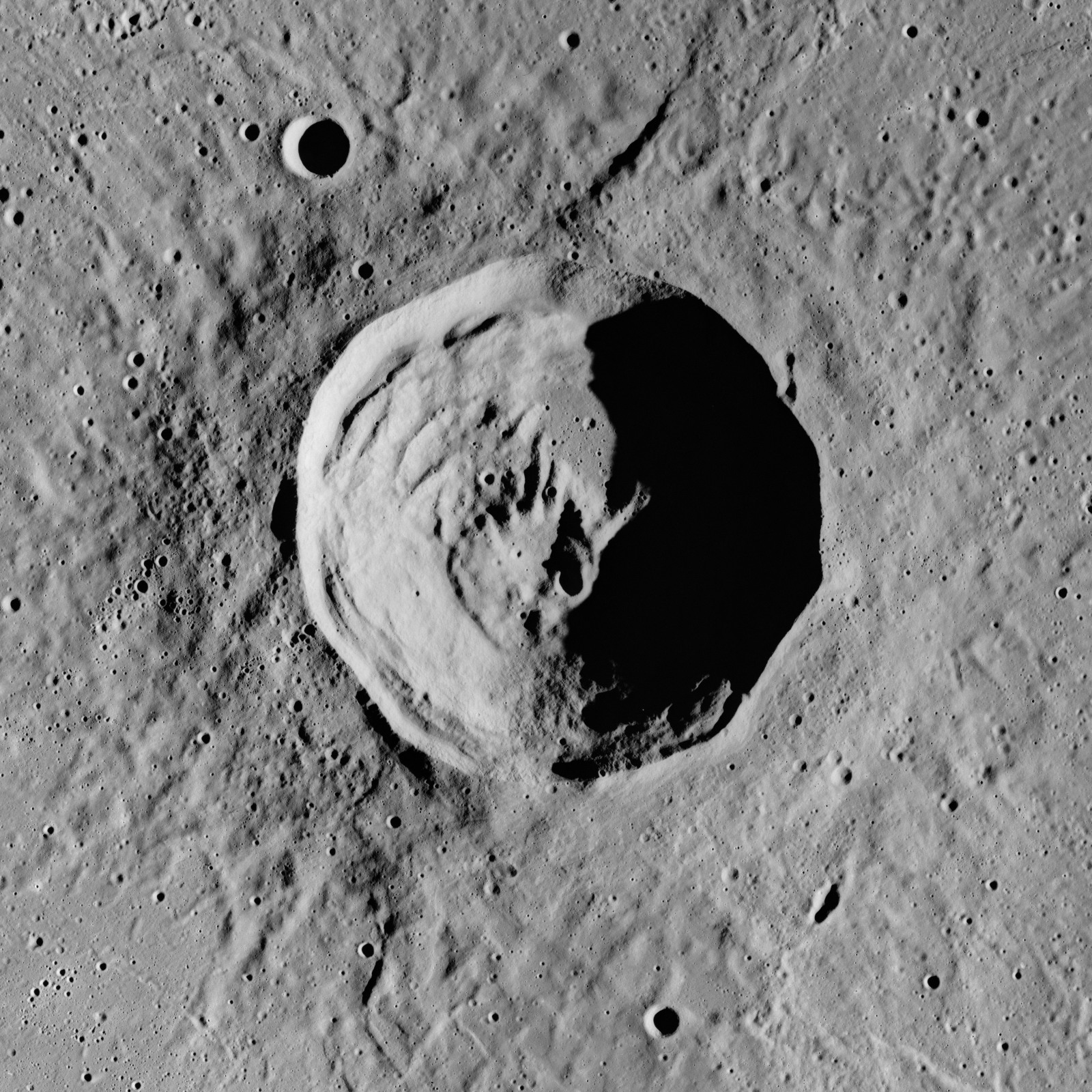 Apollo 15 AS15-M-1695 showing the crater Lambert. The 4-km crater to the northwest of Lambert is Lambert A.